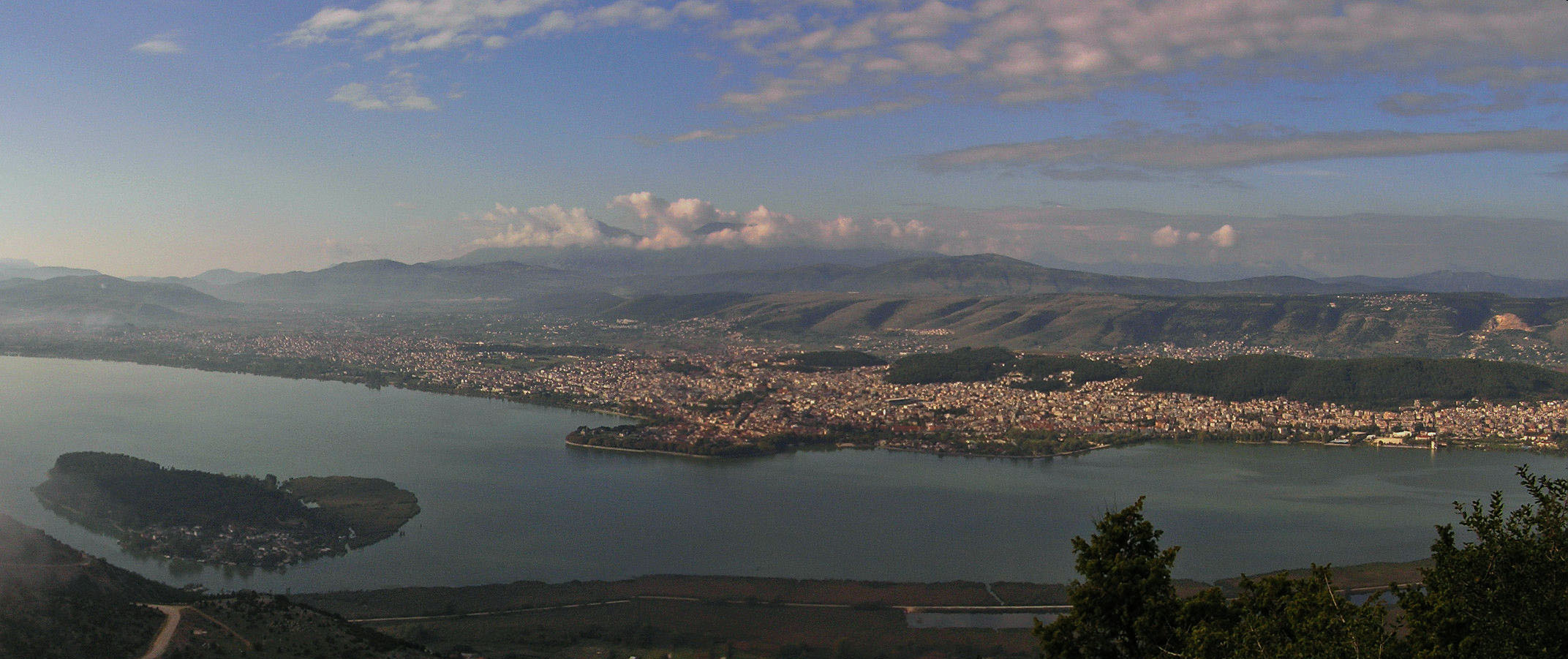 User:Ale30307's photo has its fog/mountain parts cropped off to give more focus to the city, for the needs of the city infobox, in the absense of any better photos for it on Wikimedia Commons.